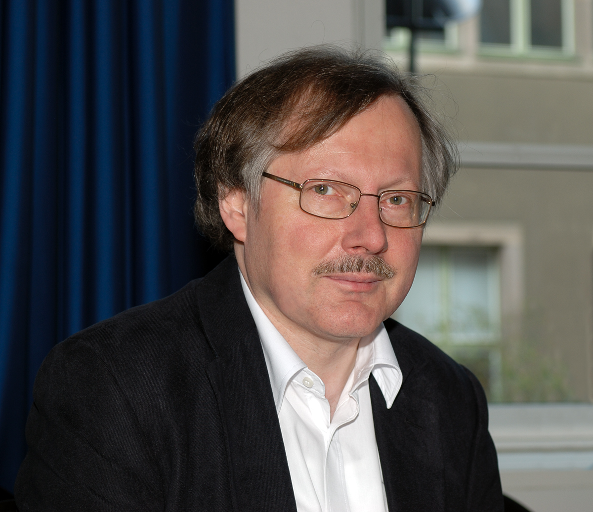 This image shows the journalist Peter Lokk.